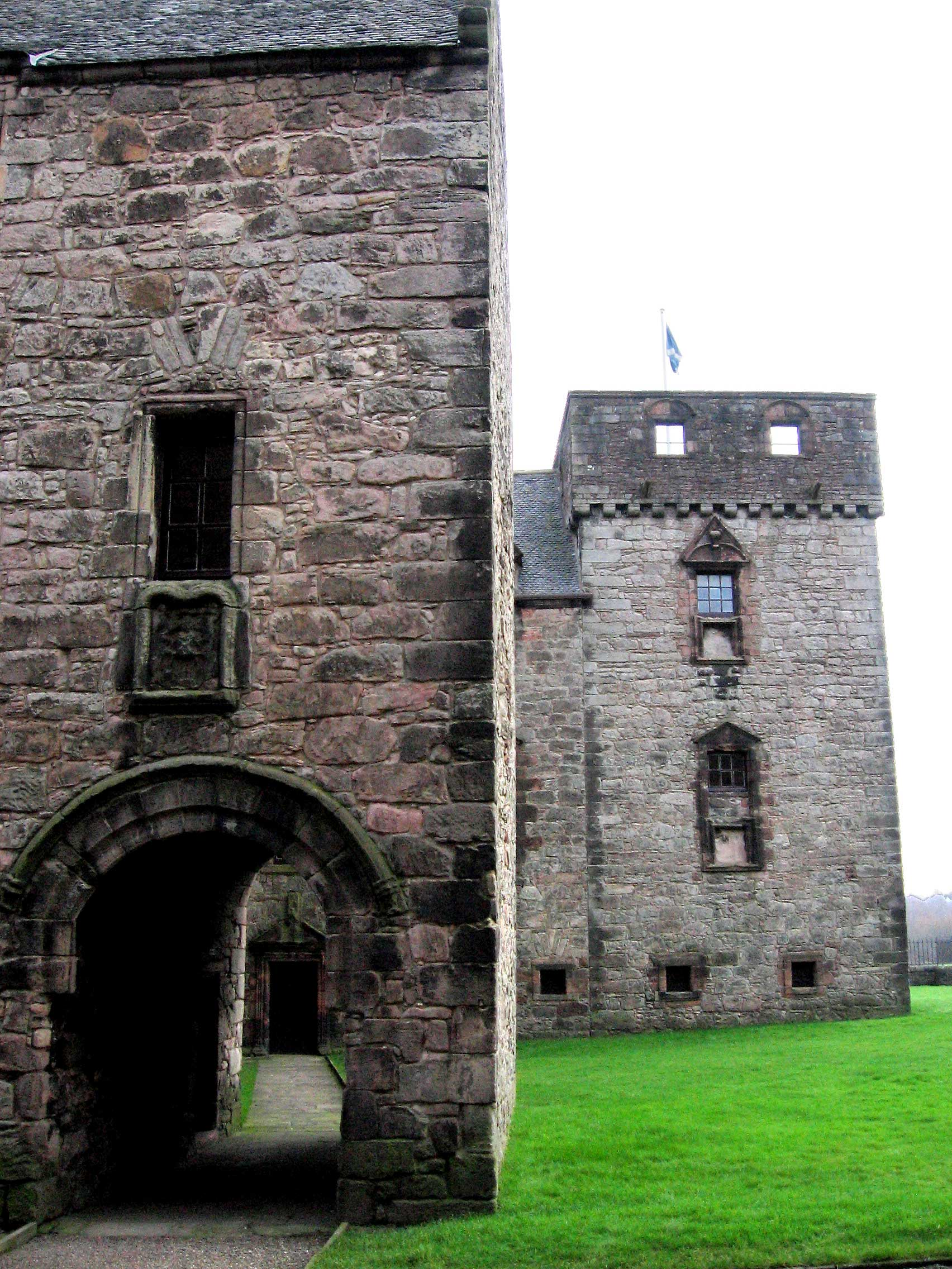 Newark Castle, Port Glasgow. The barrel vaulted gatehouse entrance leads by a path to the main entrance adjacent to the original tower house. photograph taken in February 2006 by User:Dave souza. Any re-use to contain this licence notice and to attribute the work to User:Dave souza at Wikipedia. Category:Castles in Inverclyde Category:Images of Scotland